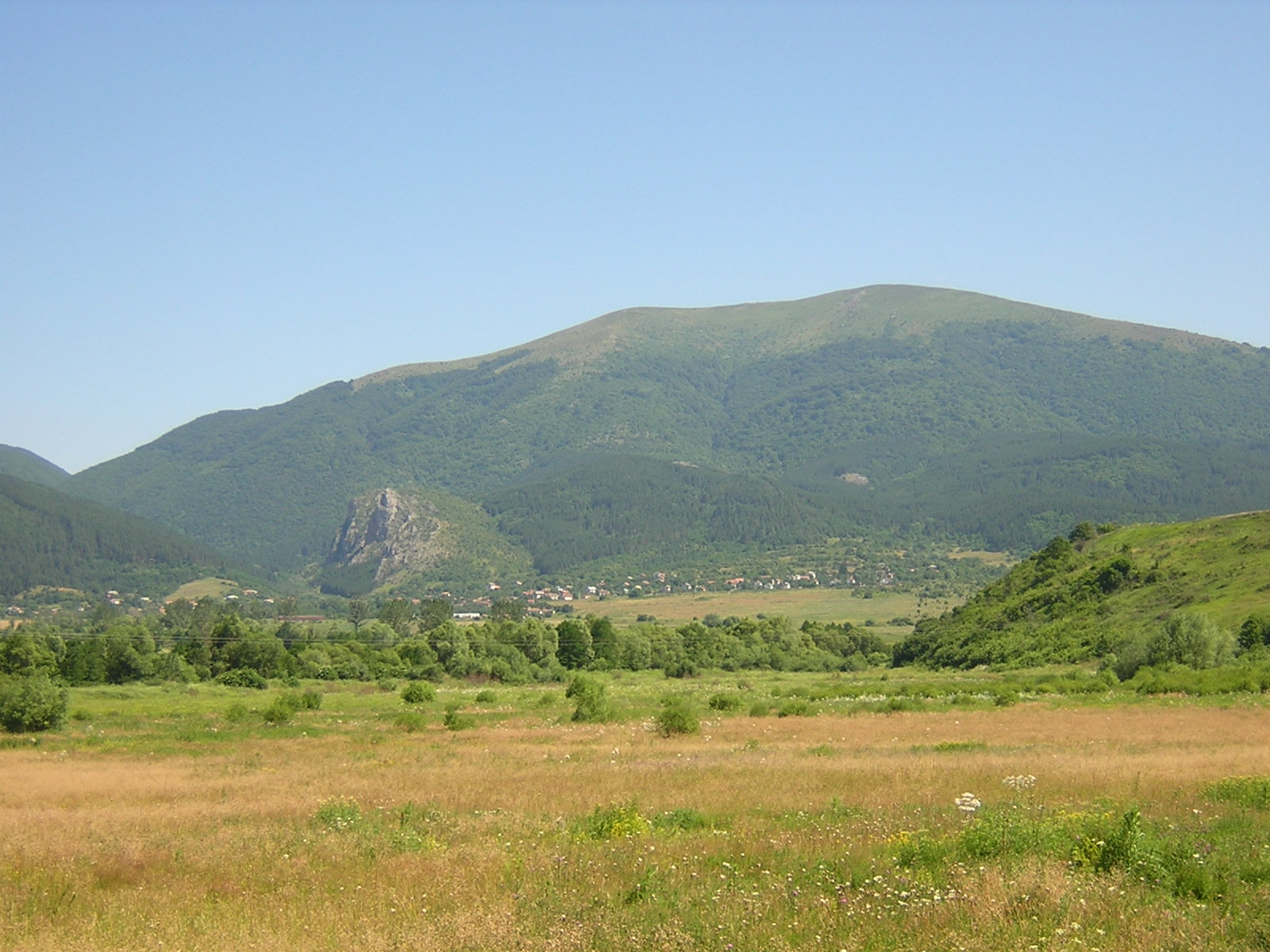 The Erma Valley, the village of Zelenigrad and Mount Ruy, seen from Yarlovtsi, Pernik Province, Bulgaria.